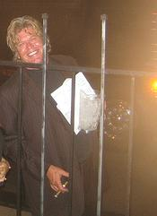 Ron White.